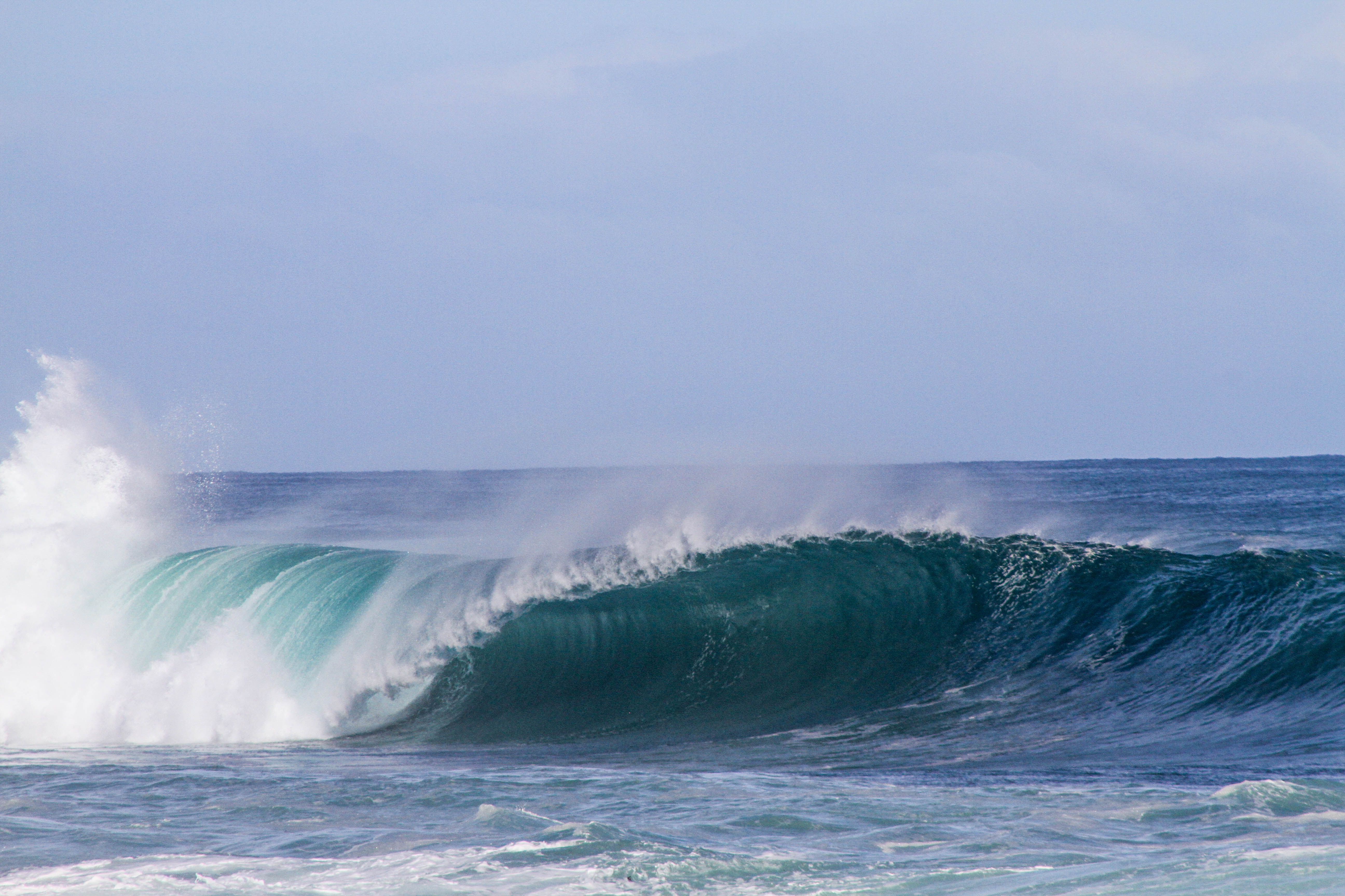 Jeremy Bishop 2016-07-19